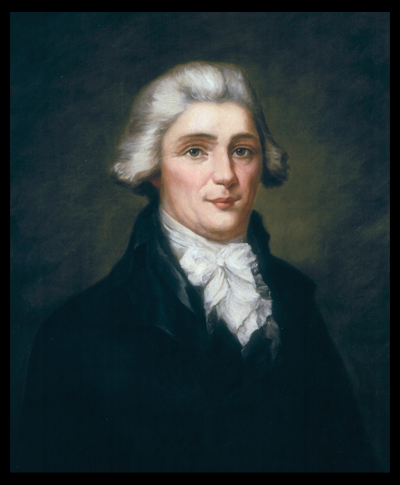 Christopher Greenup (ca. 1750–1818), the third Governor of the U.S. state of Kentucky